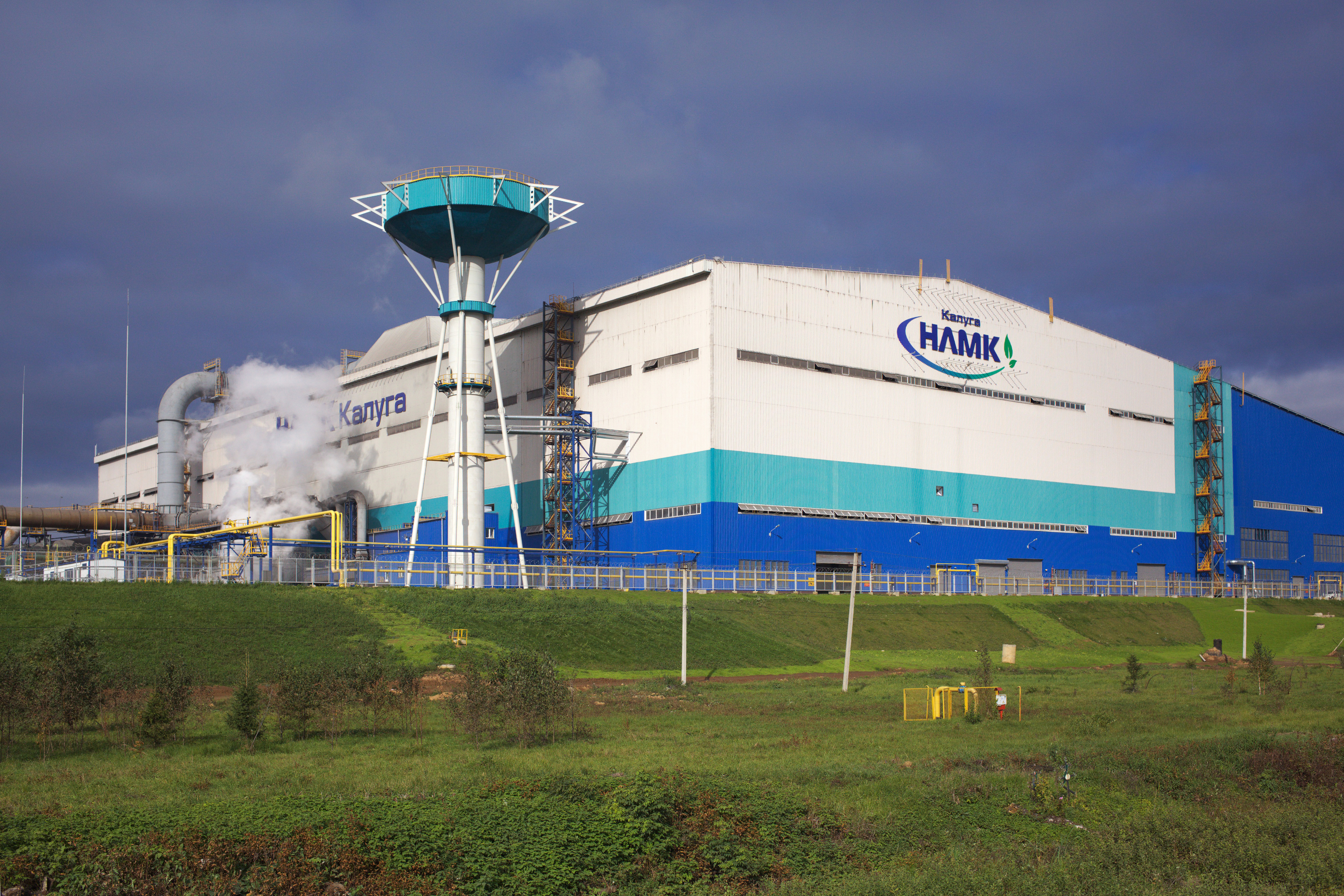 NLMK foundry in Vorsino, shortly before commissioning. Showing some 1/10 of the whole plant.